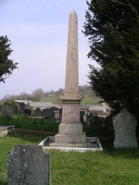 Llanfihangel-yng-Ngwynfa View from the Church, past the grave of Ann Griffiths,The best Female Hymn writer born in Wales.